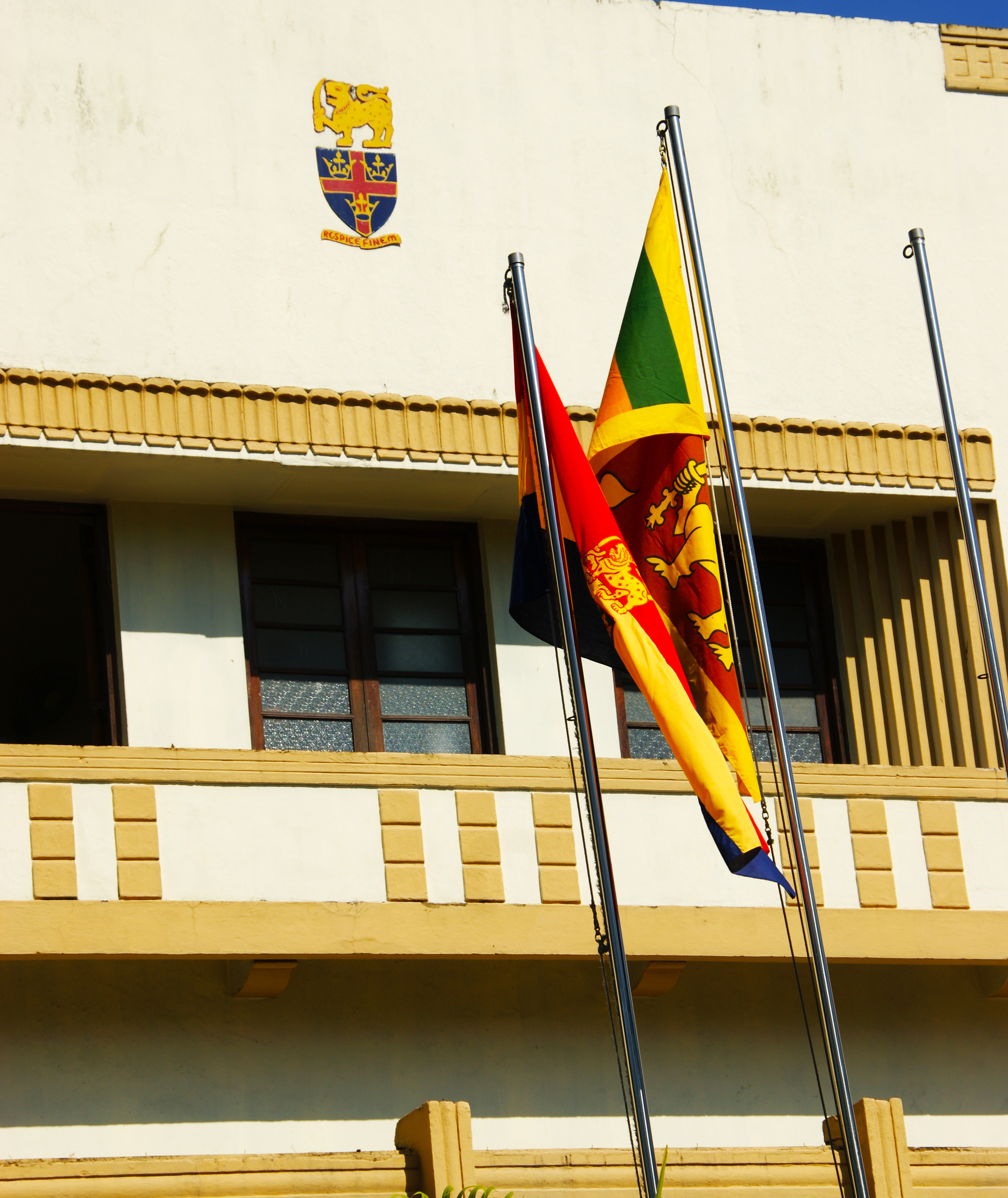 The Trinity College & Sri Lankan flags in front of the Trinity College Administration Building, Kandy